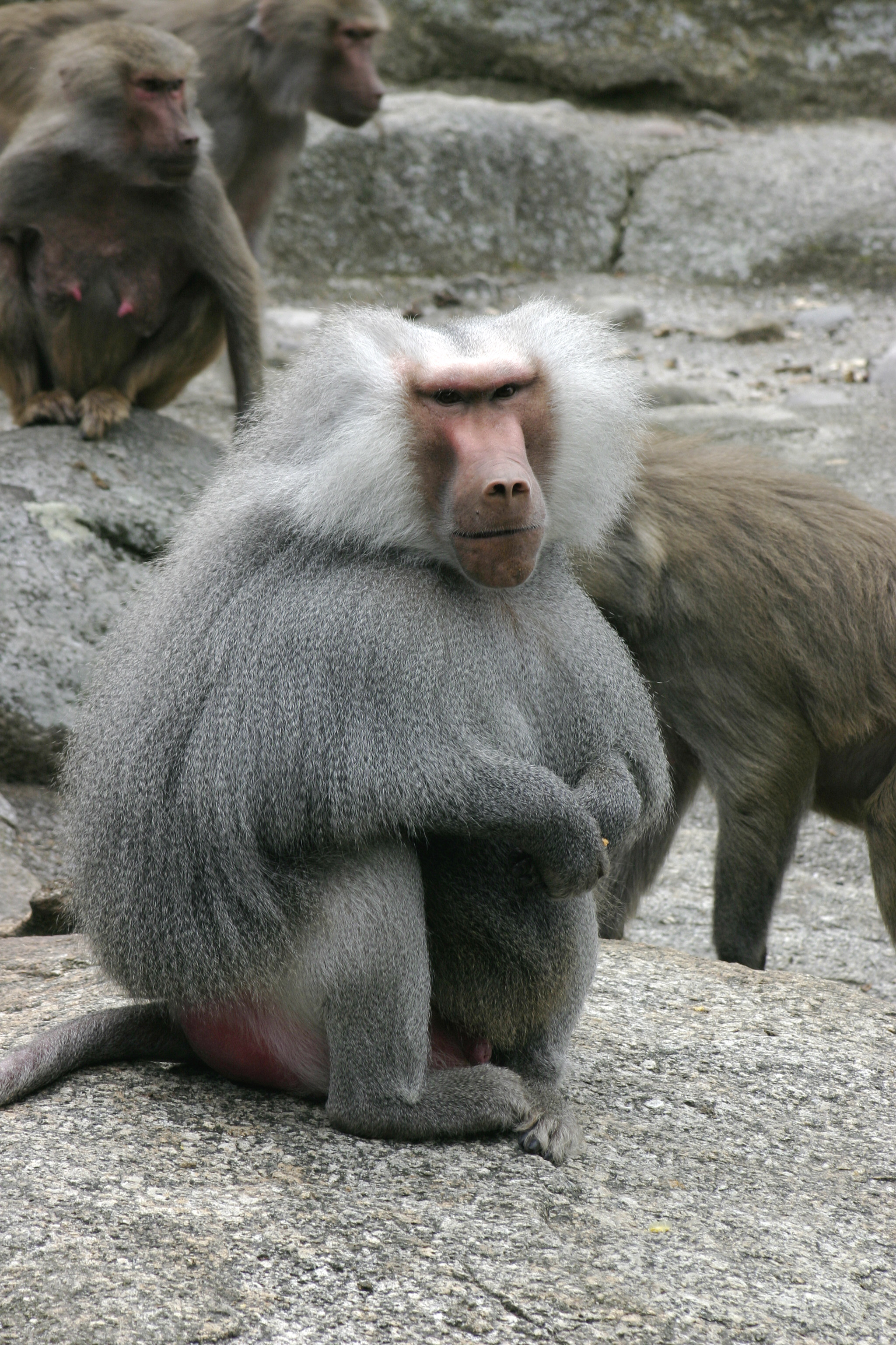 Hamadryas Baboon